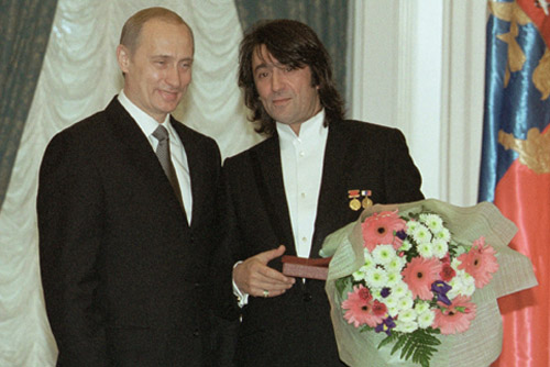 CATHERINE'S HALL, THE KREMLIN, MOSCOW. President Putin awarding State Prizes and President's Prizes. With eminent Russian musician Yury Bashmet.